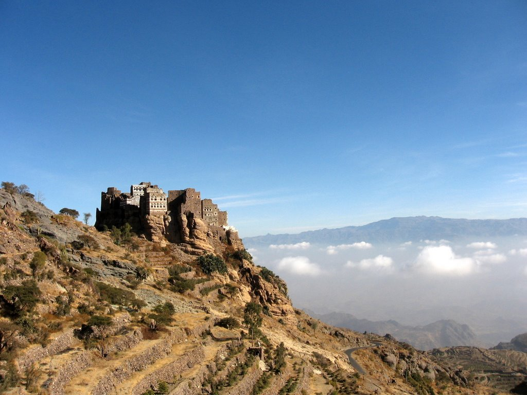 Haraz mountains around Manaka